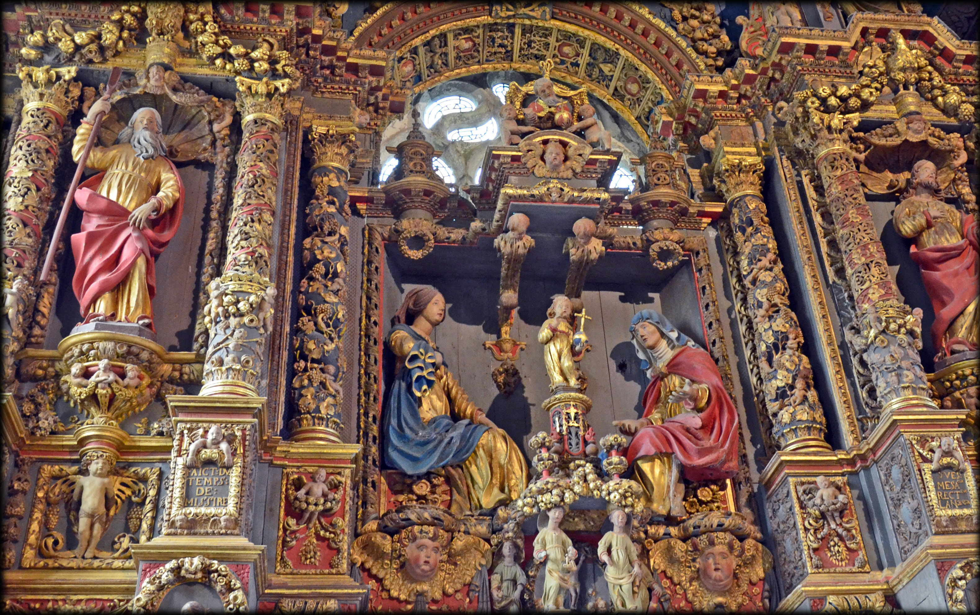 Inside of the church of Saint-Derrien (in common Commana, located in Brittany in western France). The south transept houses the "altar of the Five Wounds." At the bottom of the church, a baptistery basin of stone is topped by a high dai including wood carvings decorated with feminine virtues (temperance, justice ...).